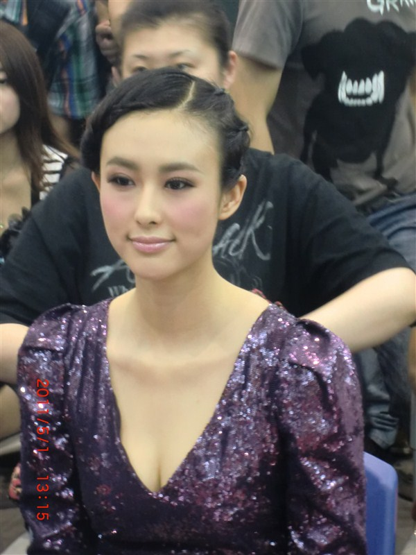 Zhai Ling is a Chinese model from Jinan city, Shandong province. This photo was taken in 2011 Nanjing International Auto Show.